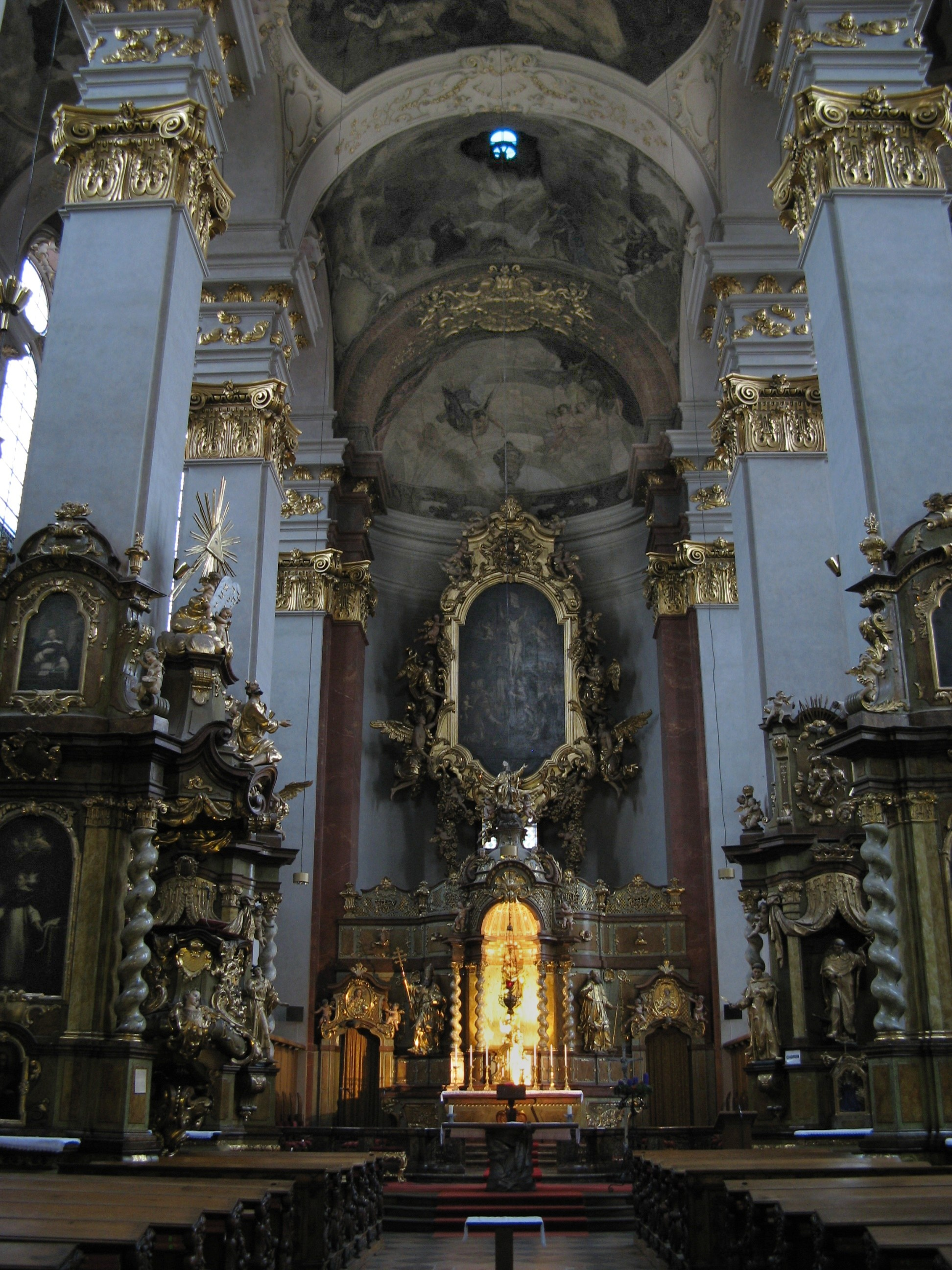 Altar of St Gilles's church in Prague.